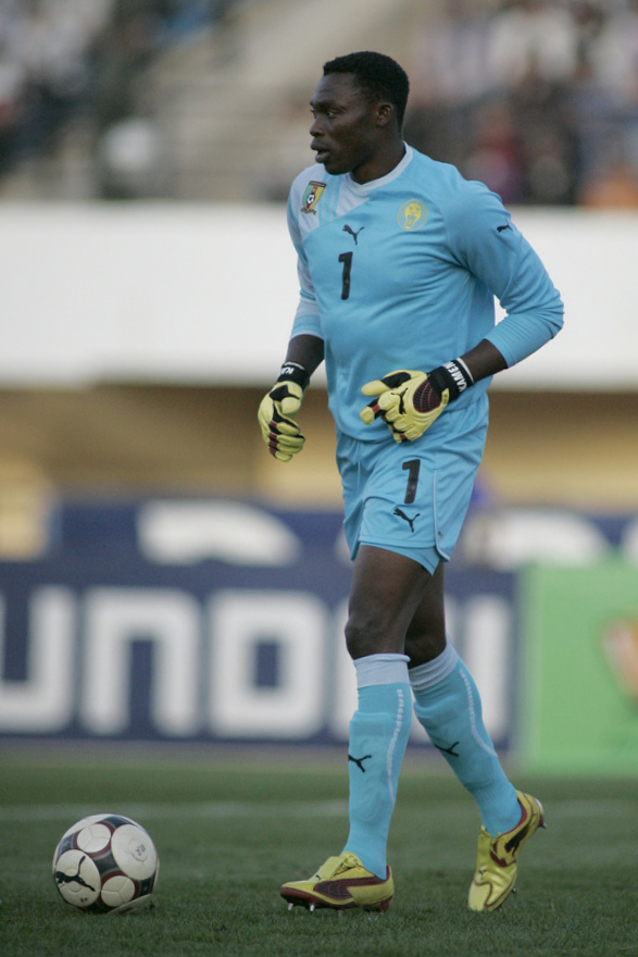 Cameroonian football player Idriss Carlos Kameni during match against Morocco